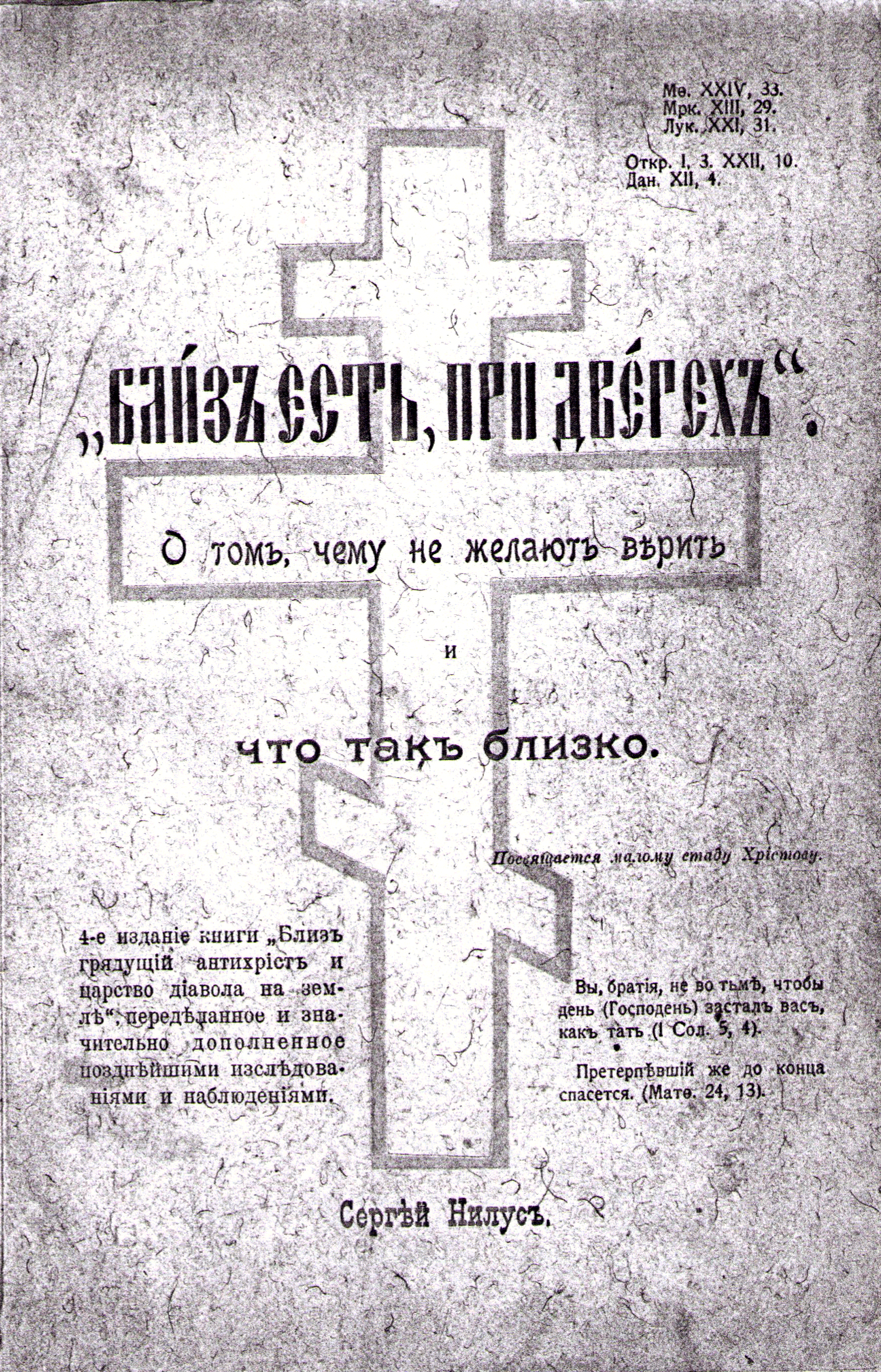 Cover of the 1917 fourth edition (PDM) of The Protocols of the Elders of Zion by Serge Nilus; also entitled It Is Near, At the Door